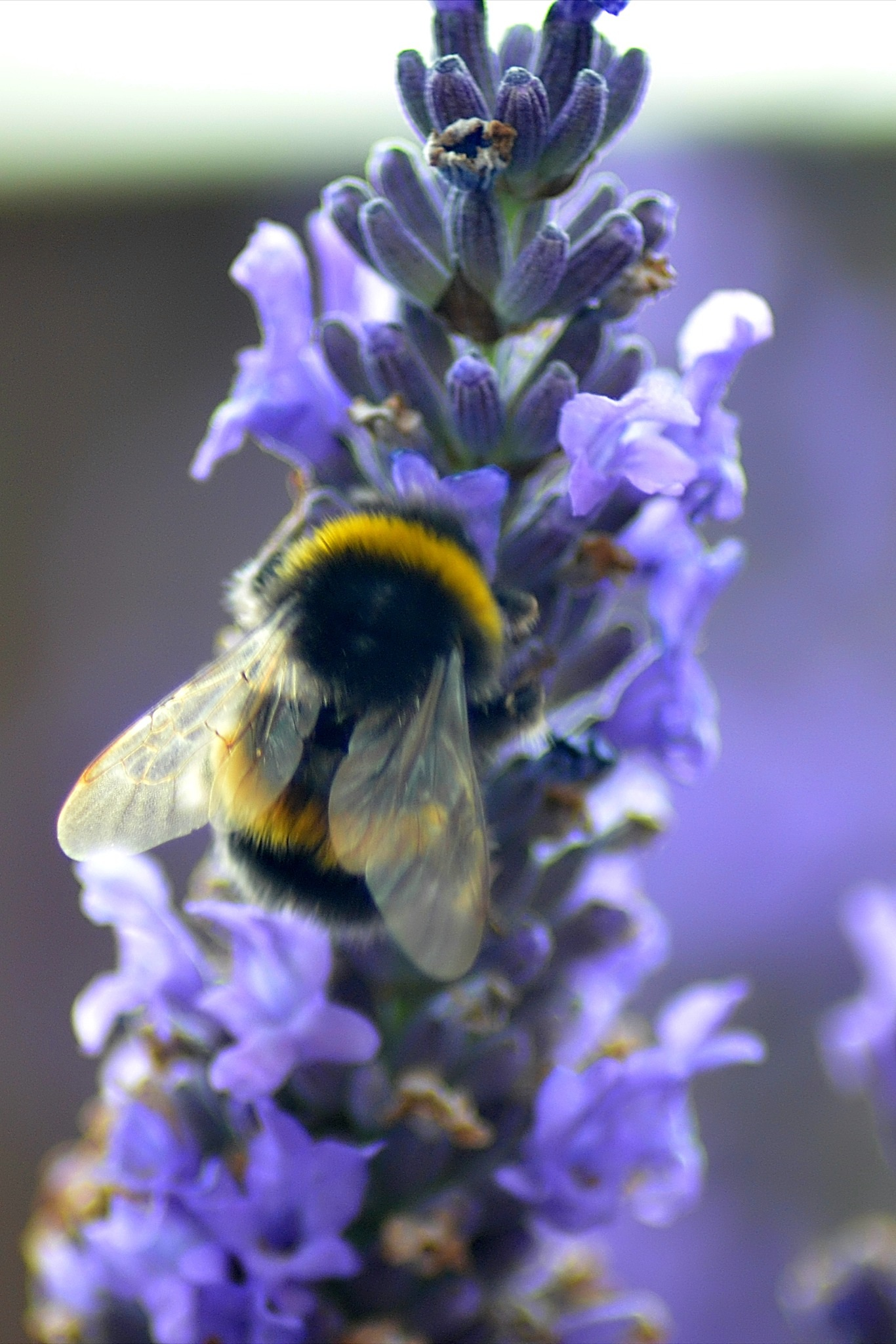 Photo of a bee collecting pollen.